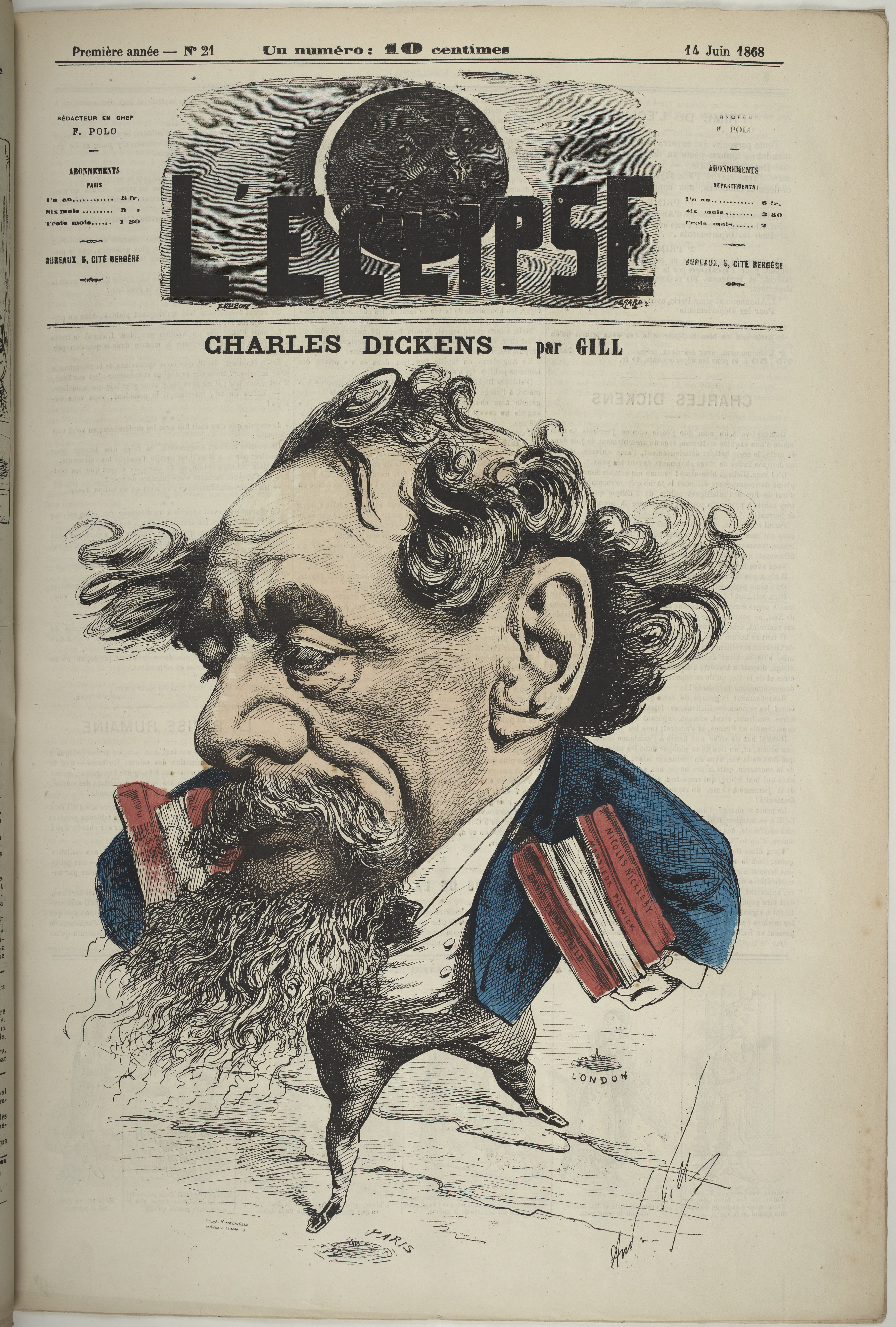 Caricature of Charles Dickens Cover of L'Eclipse 14 June 1868 Hand-colored Engraving 12"w x 18"h